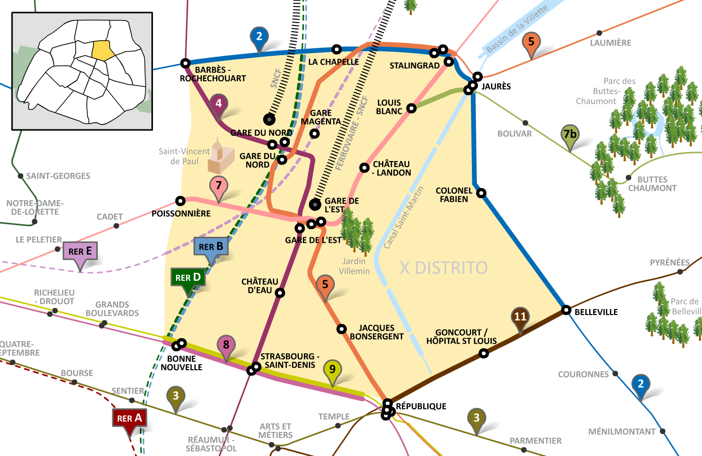 Paris 10th district (France), metro (subway) lines and RER. In spanish